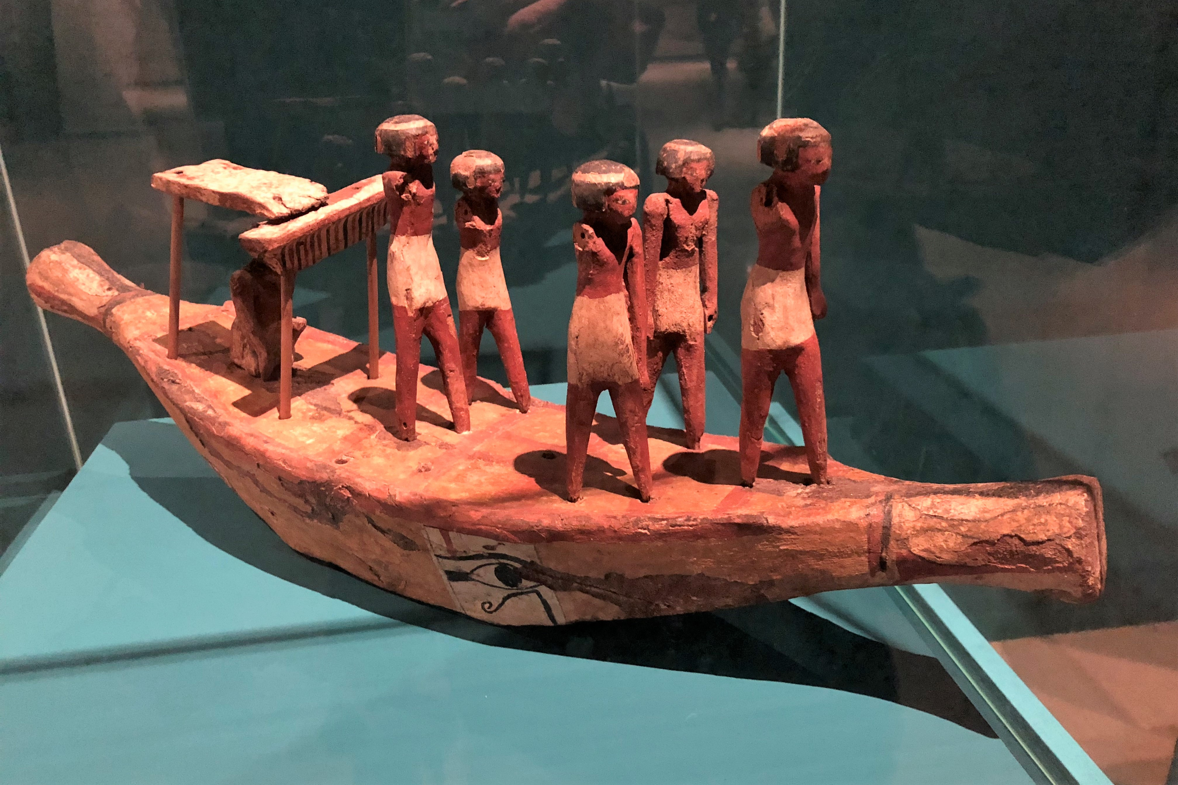 Boat Model with Crew. First intermediate period.